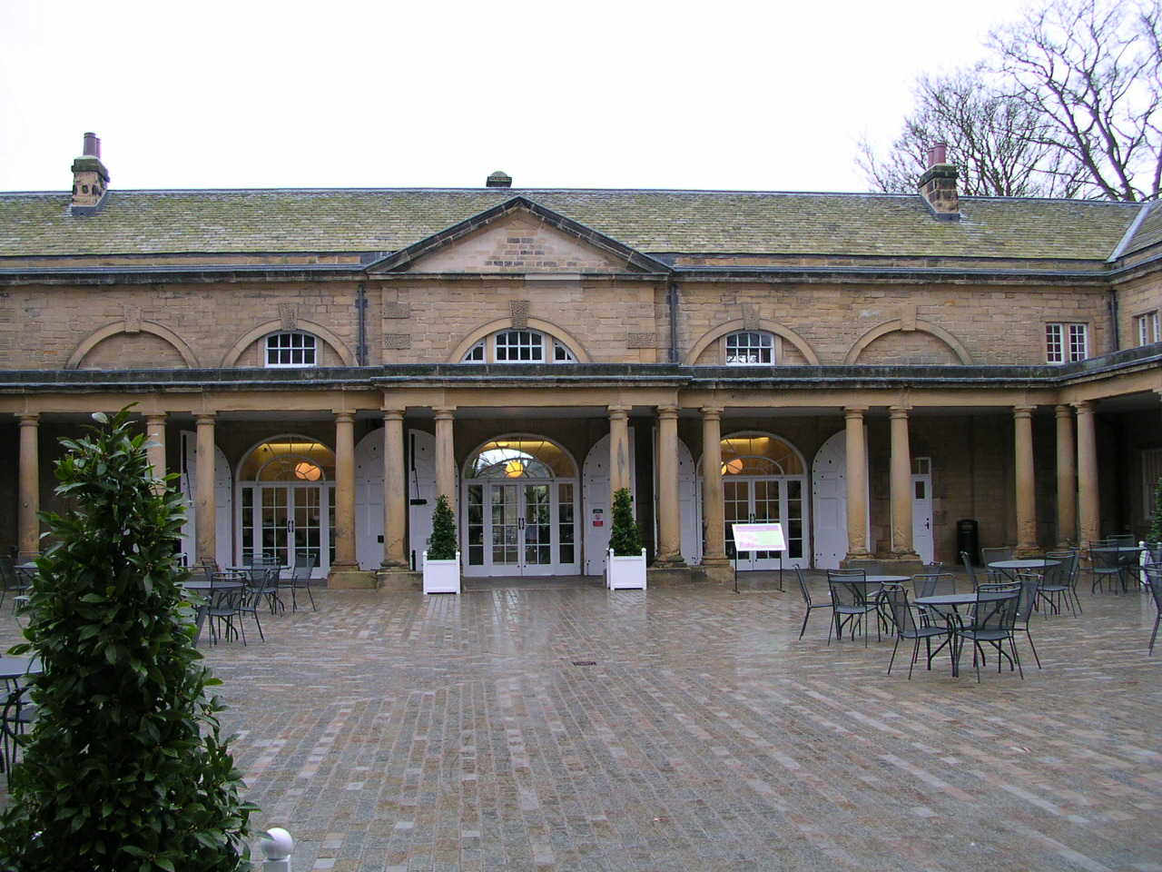 Harewood House old stables, near Leeds, England.